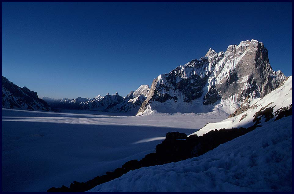 credit: Looking East to Snow Lake. Snow Lake is the glacial basin at the head of Biafo and Hispar Glaciers, Northern Areas, Pakistan.